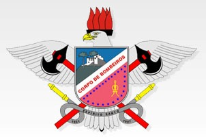 Coat of arms of Firemen - CBM ES - Brazil.